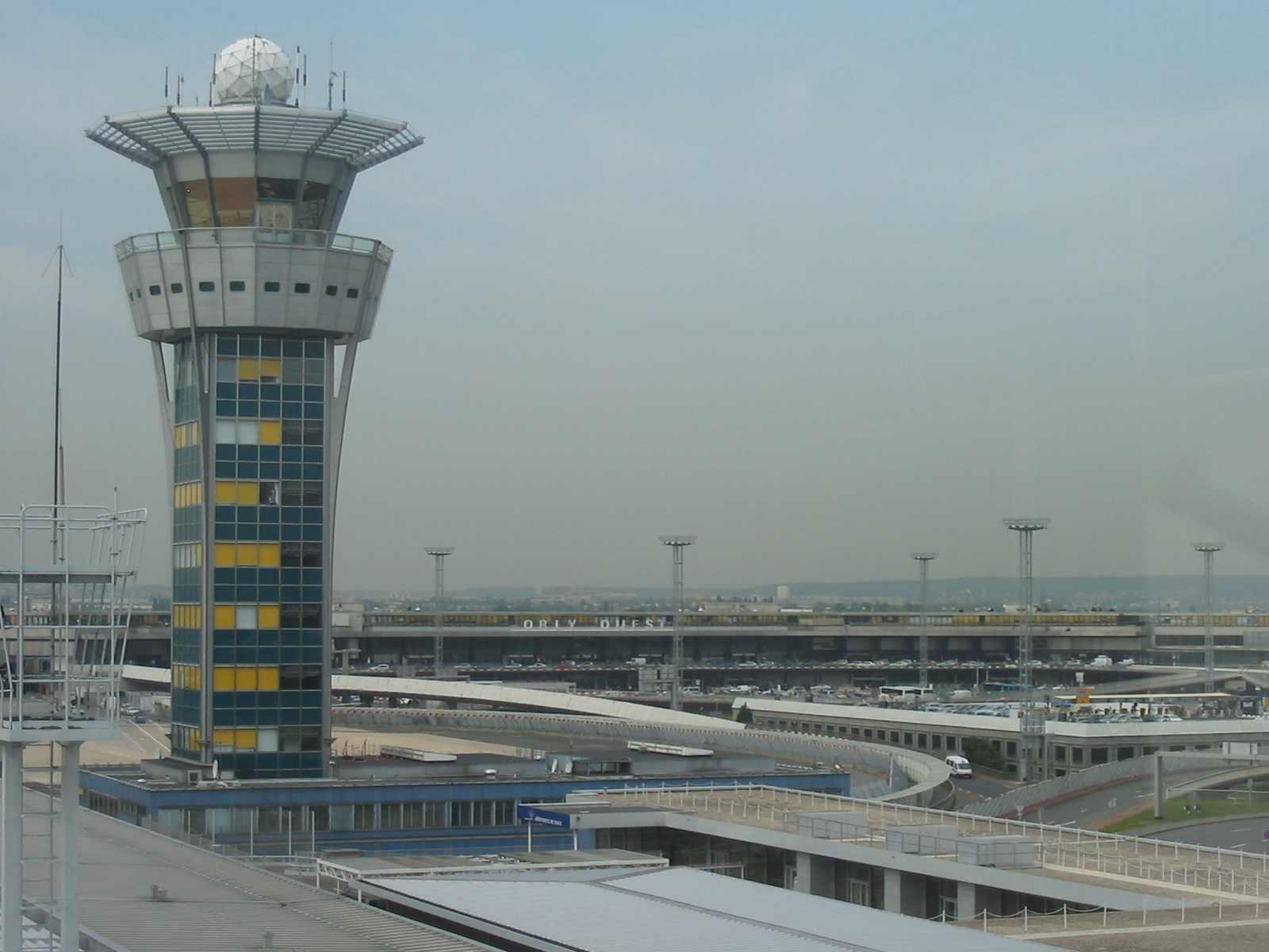 Orly tower. In the background, Orly West.